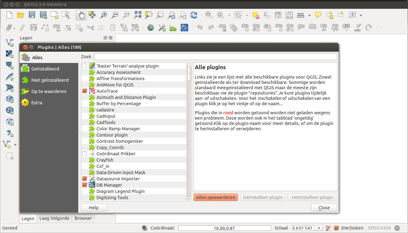 QGIS screen shot showing plug-in interface in dutch. Operating system is Ubuntu 13.10.